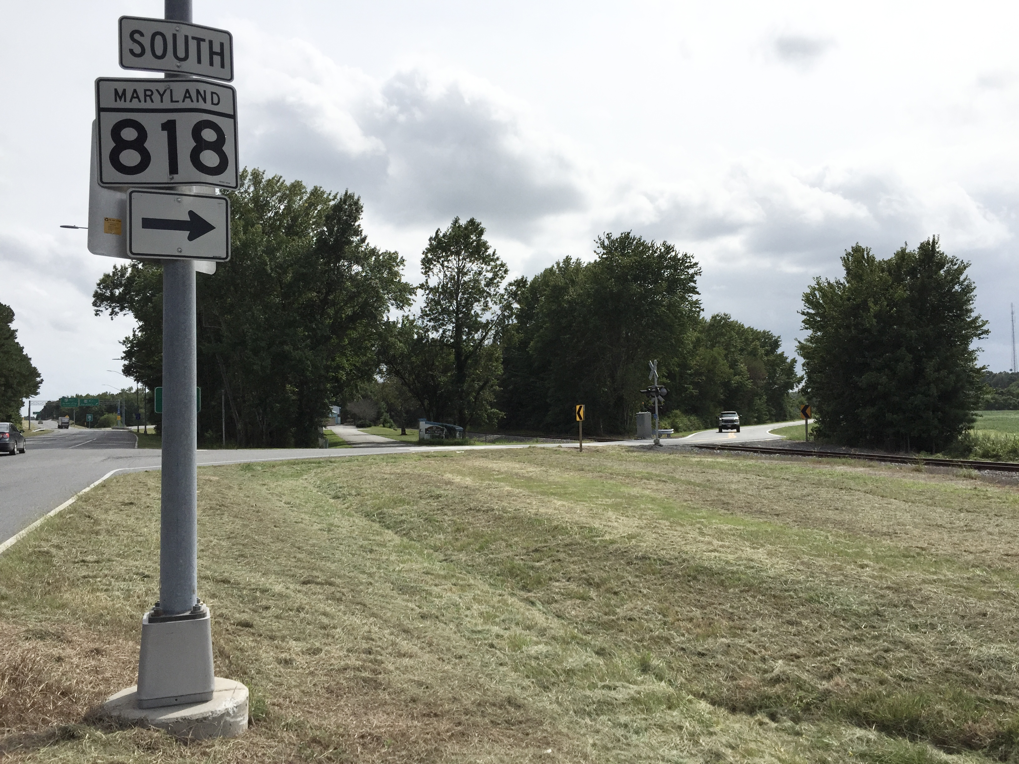 View south along Maryland State Route 818 (Main Street) at U.S. Route 113 (Worcester Highway) in Berlin, Worcester County, Maryland